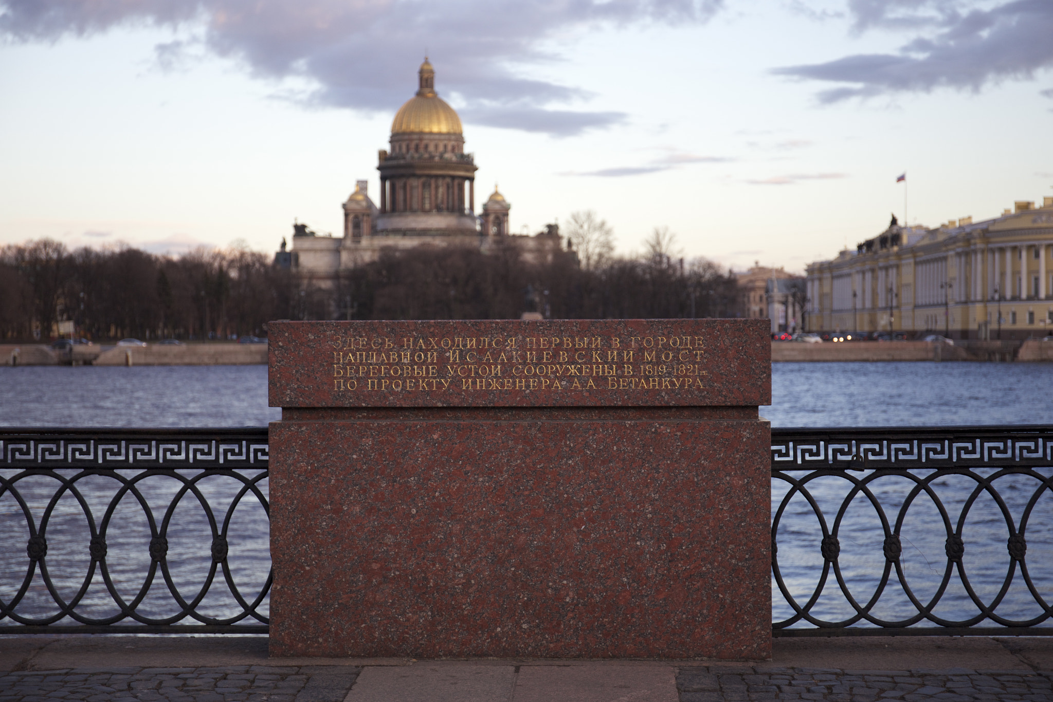 500px provided description: Saint Isaac Cathedral [#Saint-Petersburg]